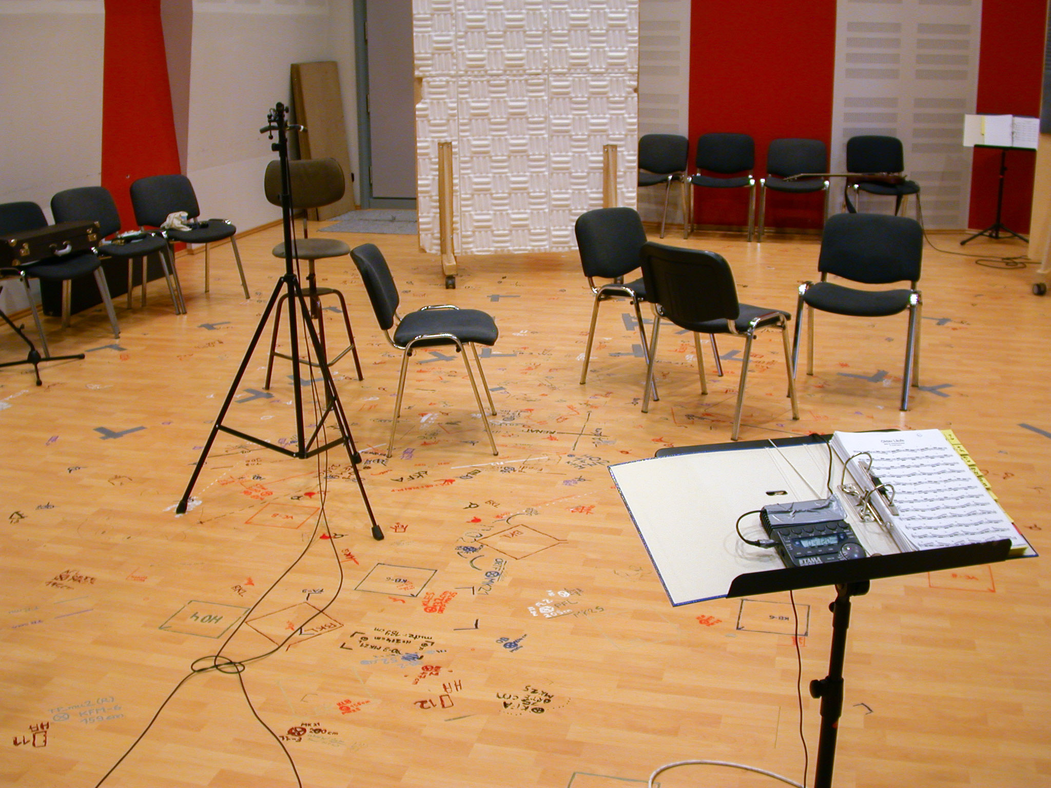 The music studio "Silent Stage", exclusively built for recording orchestral and symphonic ensembles for high-end digital samples. In its early stage like on this photo from 2004, small ensembles had been recorded. Marks on the floor show the musicians' positions and direction. The Vienna Symphonic Library is a sampling library for composers and musicians. Photo by Maximilian Schönherr, Vienna, 2004.